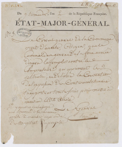 The general counsel of the Commune has just stopped, citizens, that the commander-in-chief of the armed force will lead the people against the conspirators who oppress the patriots and deliver the Convention of the oppression of counter-revolutionaries you will take all care to implement the said decree. There will be a reserve of men ready to march to the orders of magistrates of the people.